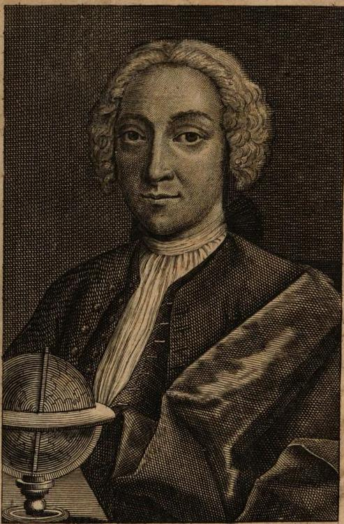 Pacific explorer Carl Friedrich Behrens